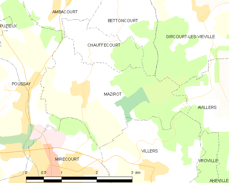 Map of French municipality Mazirot